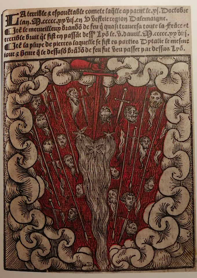 La comète apparue le 11 octobre 1527 en Westrie, title page from La Terrible et Espouventable Comete — Aix-en-Provence, bibliothèque Méjanes [Rés.D.36, 9].